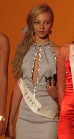 Miss Cyprus 2008 Mari Vasileiou during Miss World 08 in Johannesburg